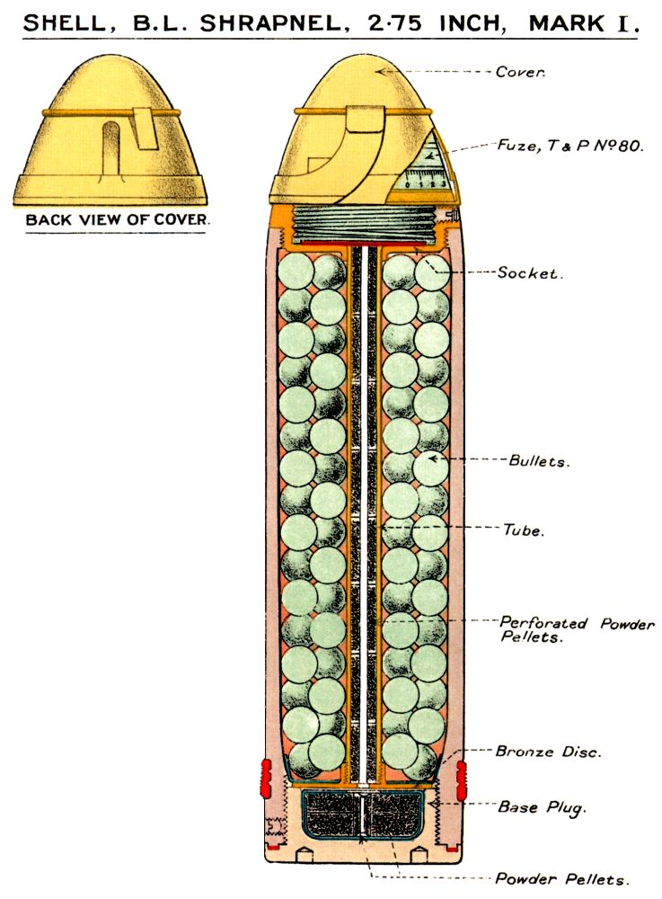 Diagram of Mk I shrapnel shell for British BL 2.75 inch mountain gun. Length 9.65 inches, diameter 2.73 inches. Weight filled & fuzed 12.5 lbs. Shell is of the modern design with 2 inch fuze hole, separate base which screws in, bursting charge is of compressed powder pellets. Body and base of forged steel. Contains 253 balls, 41/lb. Central tube contains powder pellets to increase angle of opening on release of bullets.